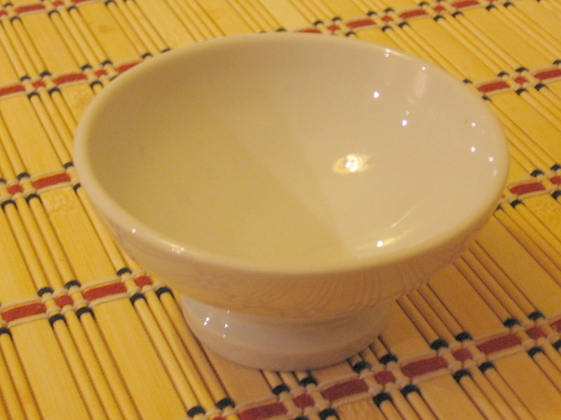 Cup for Ribeiro wine